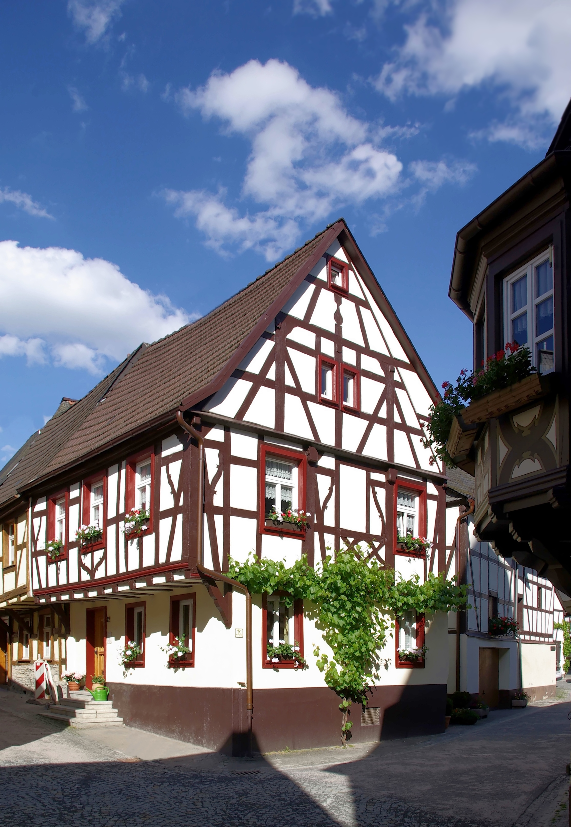 Germany, Herrstein, Timber-frame Building